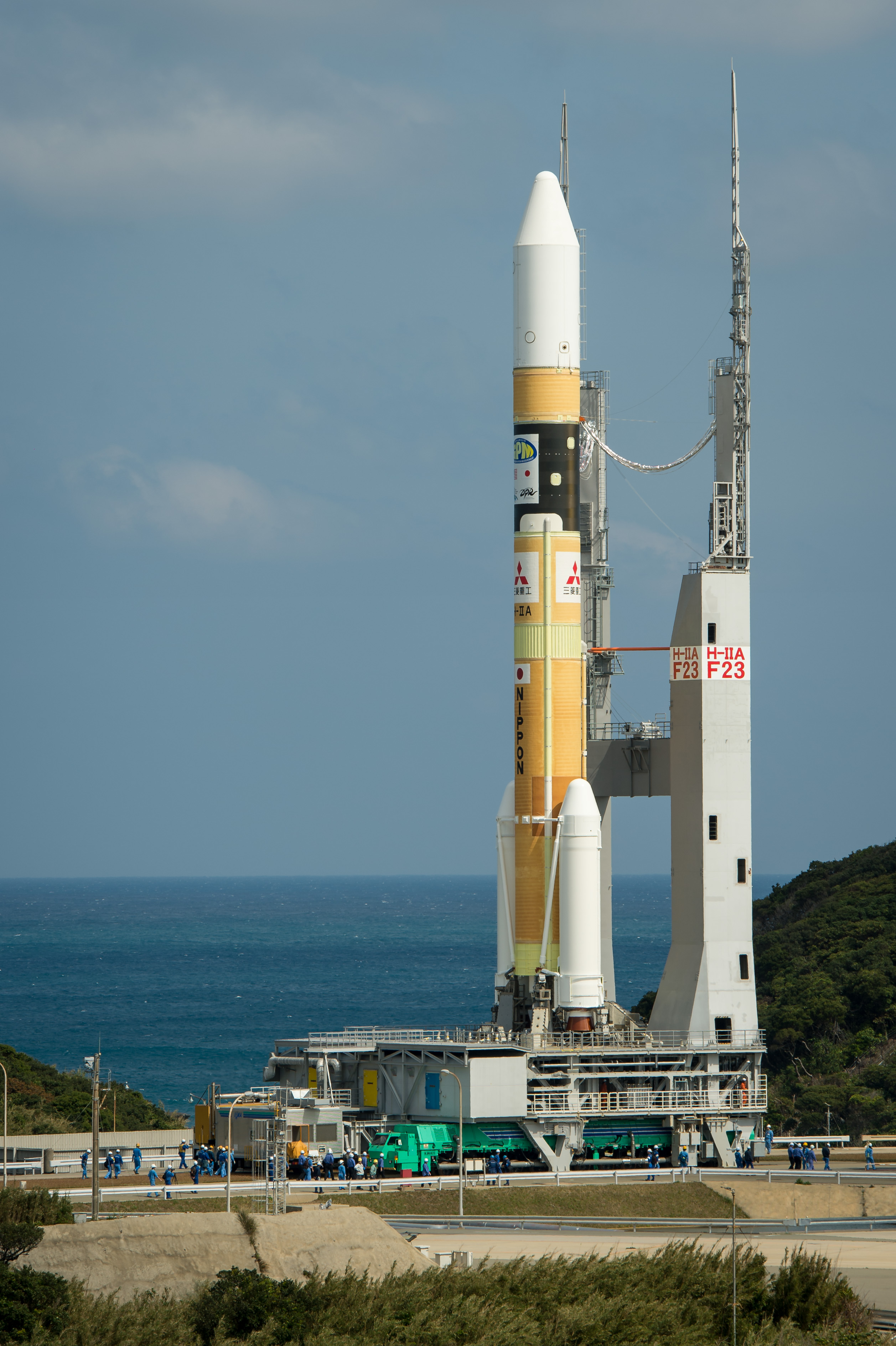 A Japanese H-IIA rocket carrying the NASA-Japan Aerospace Exploration Agency (JAXA), Global Precipitation Measurement (GPM) Core Observatory is seen as it rolls out to launch pad 1 of the Tanegashima Space Center, Thursday, Feb. 27, 2014, Tanegashima, Japan. Once launched, the GPM spacecraft will collect information that unifies data from an international network of existing and future satellites to map global rainfall and snowfall every three hours.